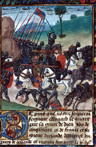 Edward (centre) leads his army to victory, as Warwick's men flees to the right